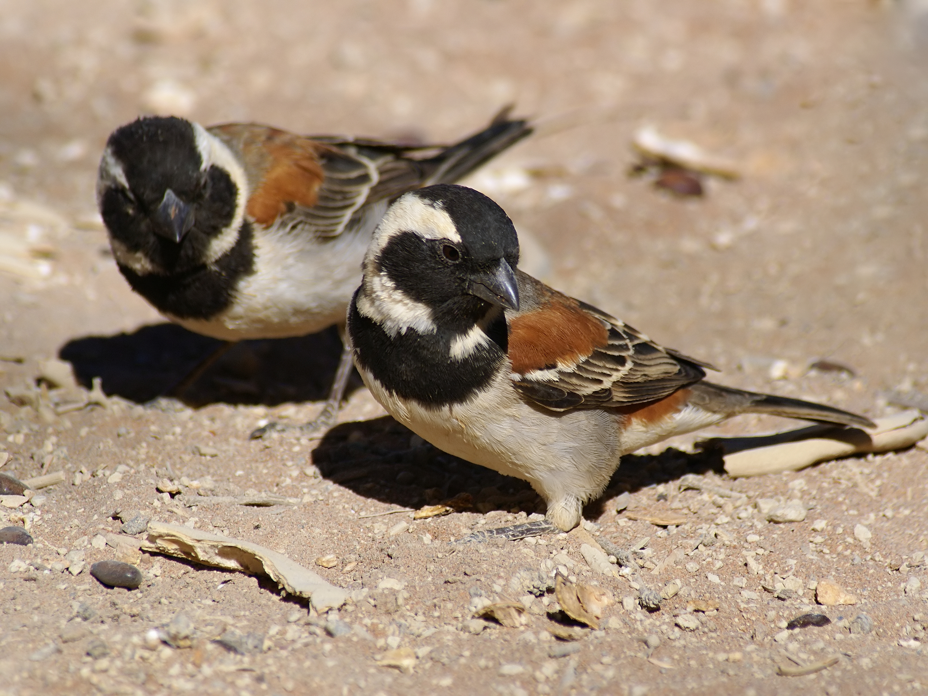 Two male Cape Sparrows or Mossies of the subsepecies damarensis, at Sossusvlei, Namib desert, Namibia.